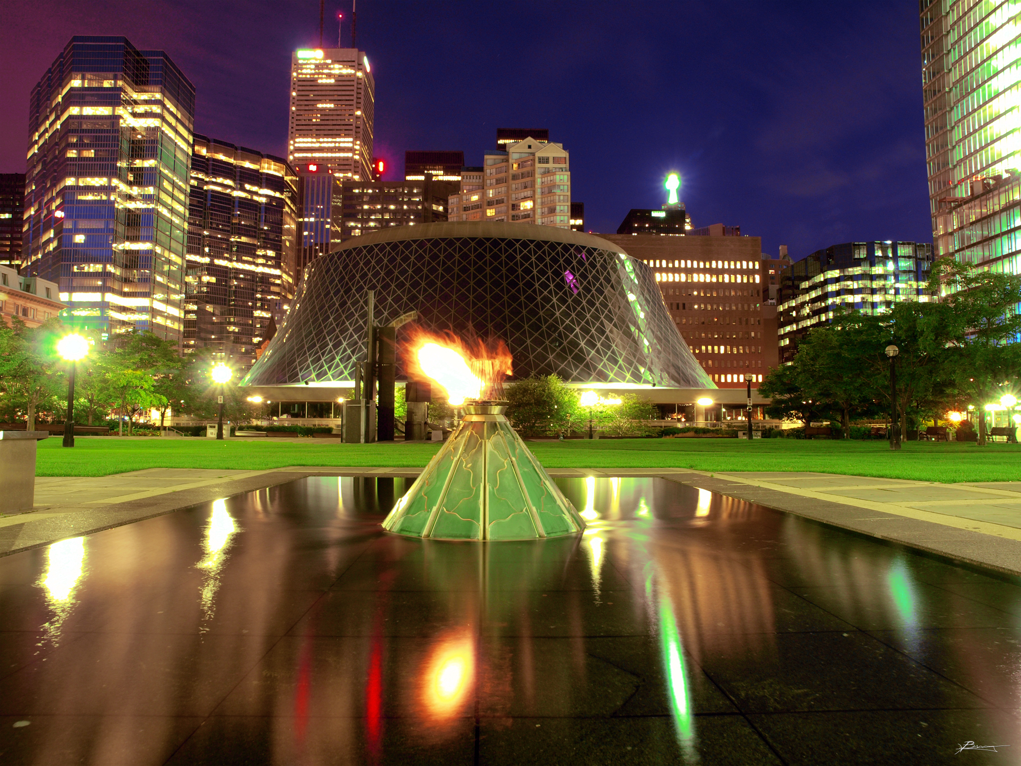 Commemorative flame in Metro Square, with Roy Thomson Hall in the background. Toronto, Canada. Not HDR :)